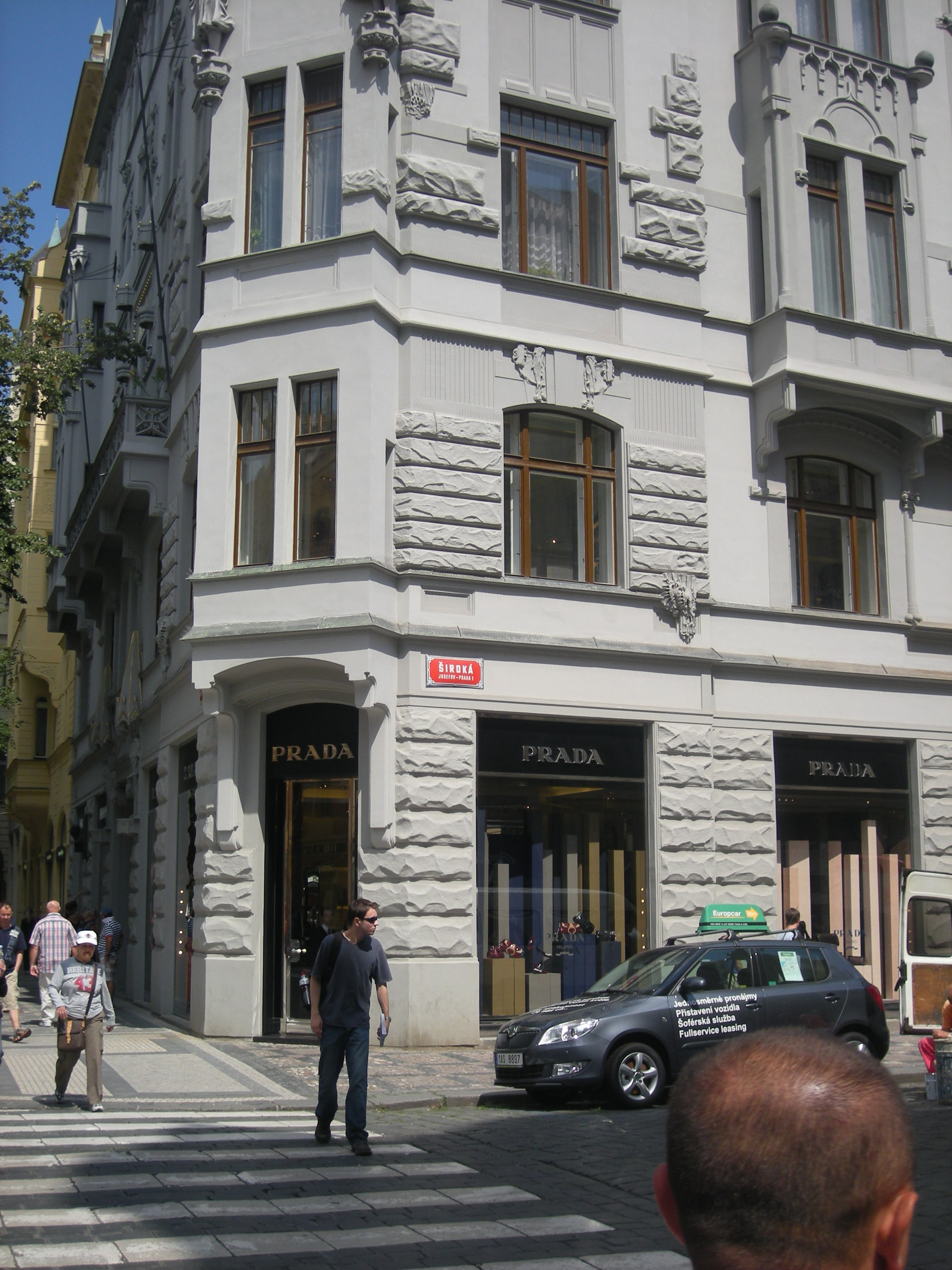 prada store on Parizska streer, Prague.